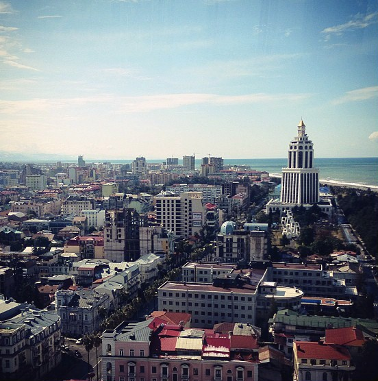 Batumi (view from the Radisson Blu hotel, 2012)